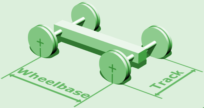 Original illustration work by me using 2d and 3d applications. Bryce 3D, Corel Draw, etc. Created to illustrate the Wikipedia Wheelbase article and the wheelbase for any wheeled vehicle. (The inclusion of "track" helps differentiate, since track is often